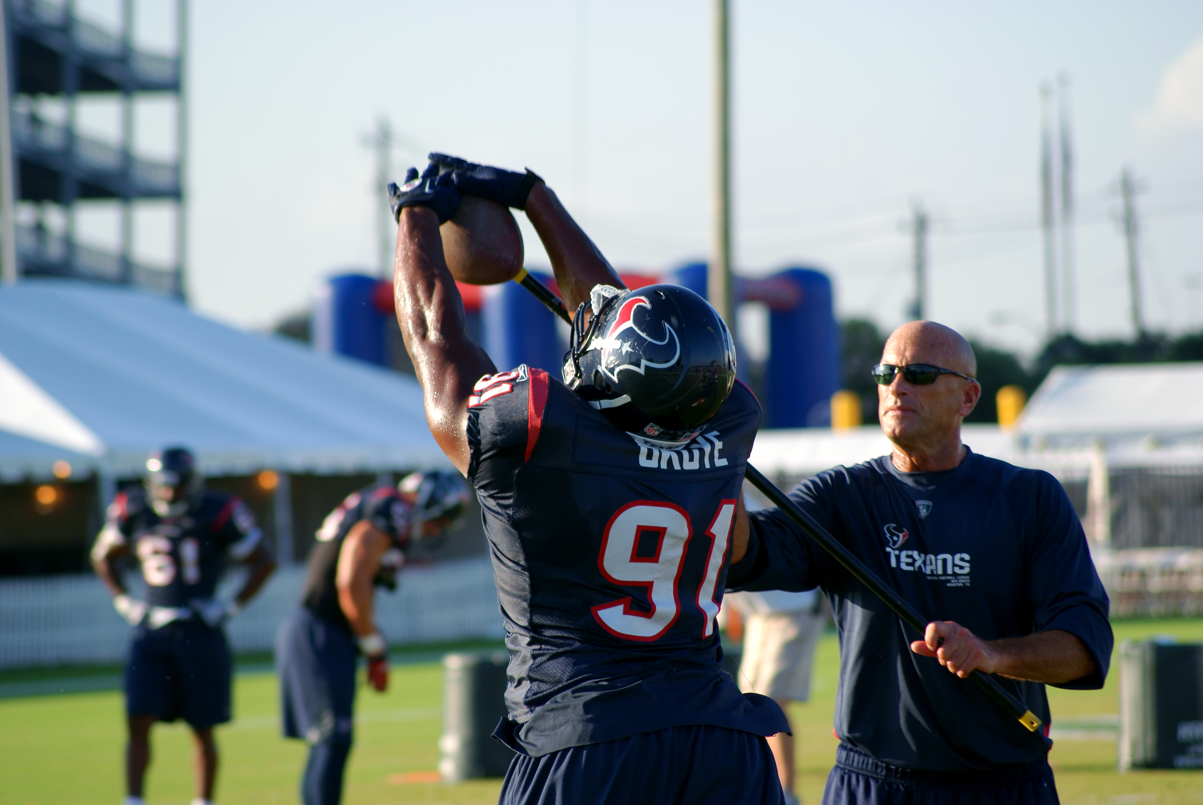 Amobi Okoye during drills with the Houston Texans